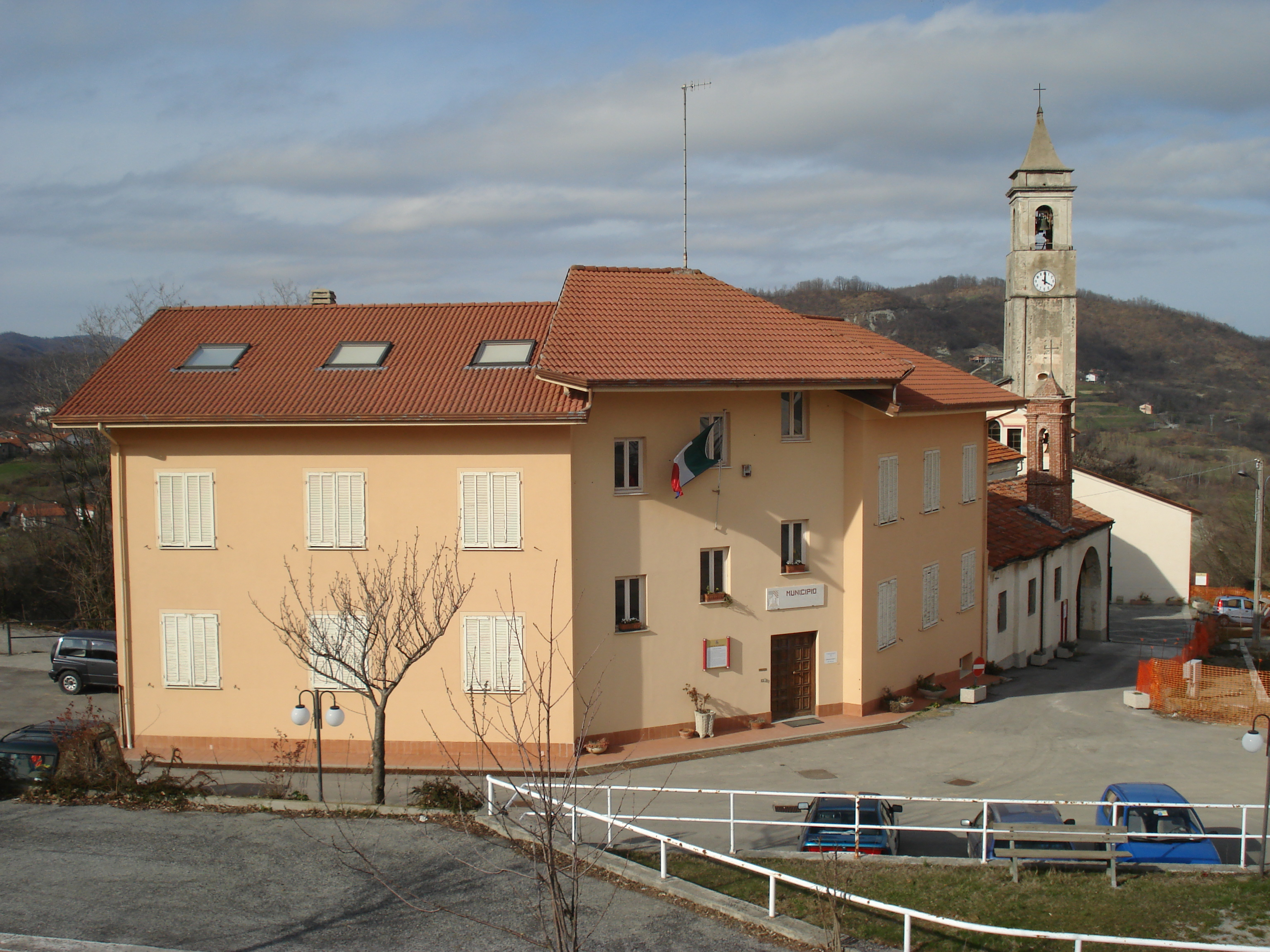 The Town Hall of Cosseria